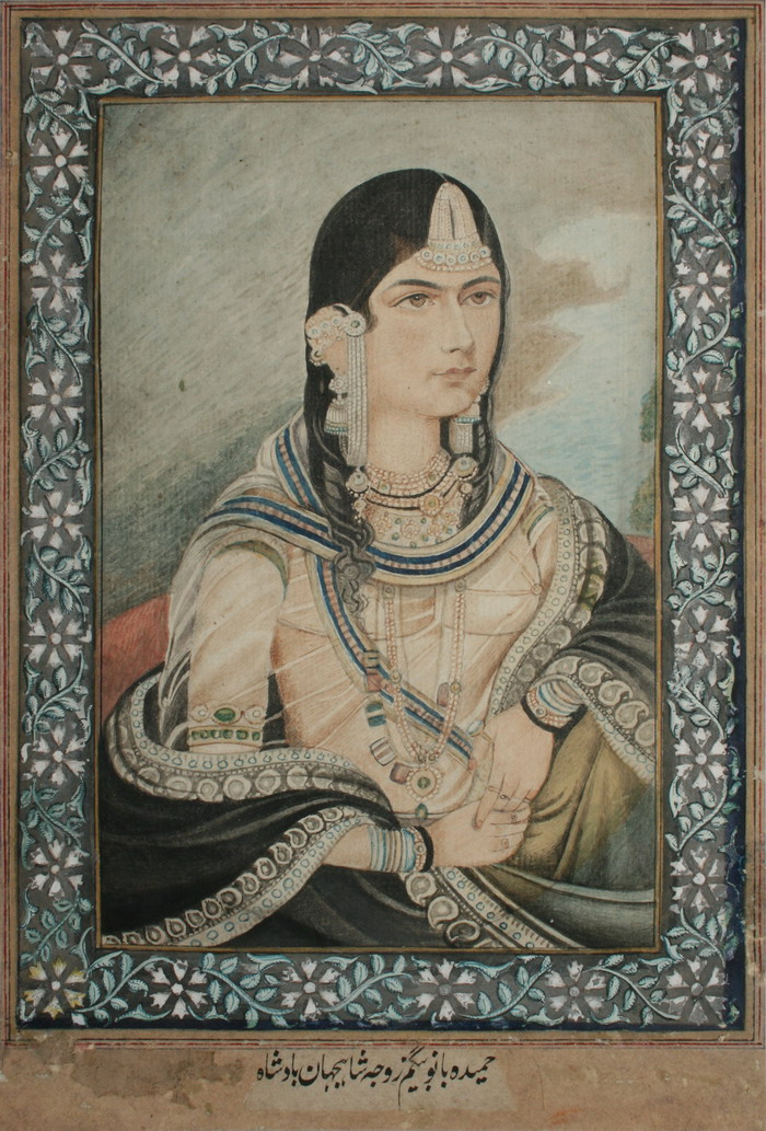 Hamida Banu Begum, wife of Mughal Emperor Humayun. Anglo-Indian school at Lucknow, circa late 19th century. Opaque watercolour on warqa, laid down on later card. 28.1cm by 19.1cm The inscription translates "Hamida Banu Begum, zauja (wife) Shah Jahan Badshah (king)". Collectors and dealers are usually pleased to find an old inscription on a painting, assuming it to be correct, but this is often - like here - not the case, in this instance having a husband still to be born! Identification of portraits Mughal Emperors' wives are notoriously difficult to identify due to the artists never having seen them, meaning they instead painted imaginary likenesses according to contemporary notions of beauty. Hamida Banu Begum's legacy is the mausoleum she commissioned, Humayun's Tomb, following his death.